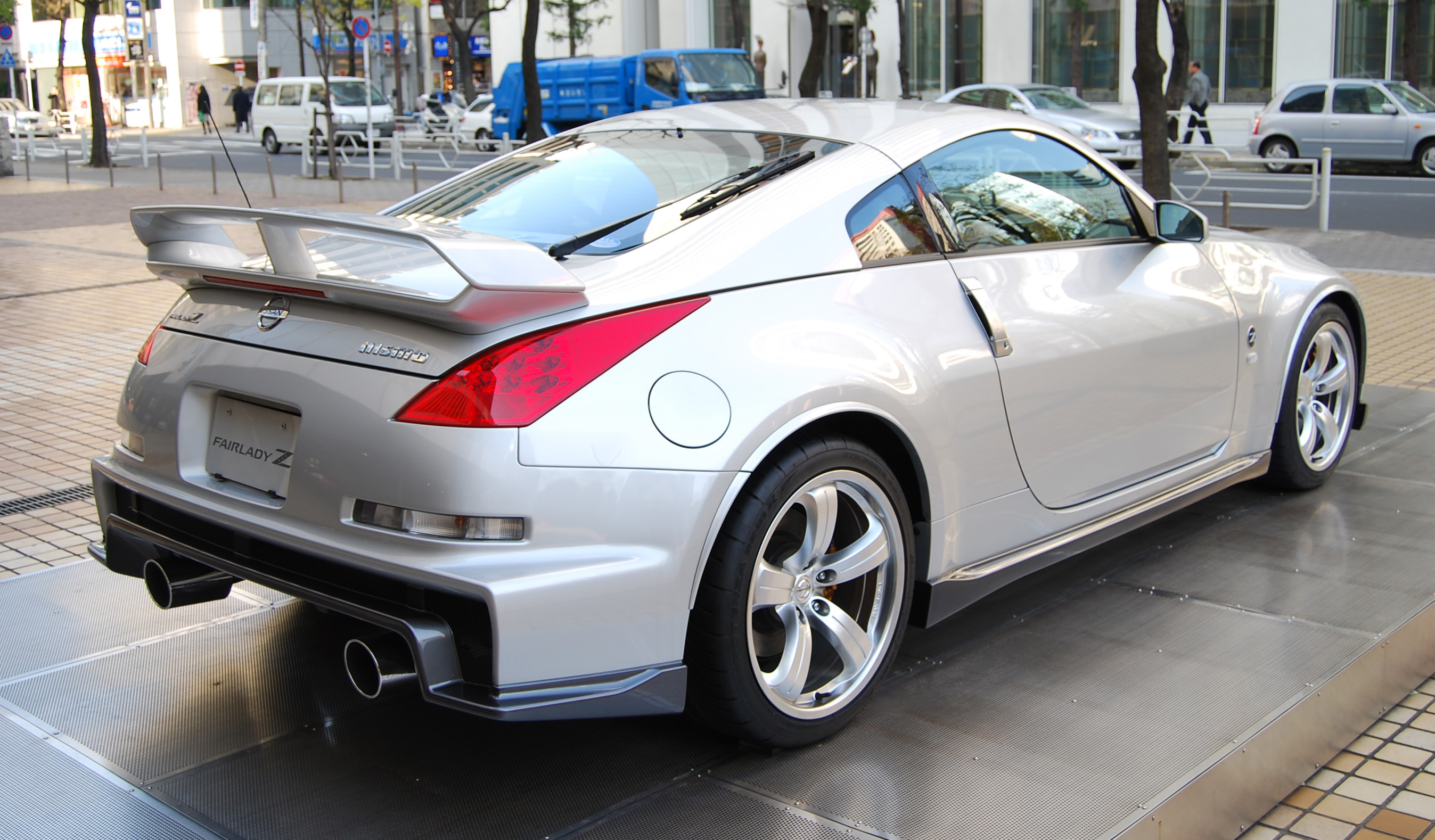 Nissan Fairlady Z Version Nismo photographed in Nissan Gallery (Ginza, Tokyo)